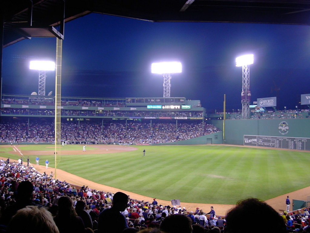 Fenway Park Boston, MA Note: On this night, the Boston Red Sox clinched the 2003 AL Wildcard. Thanks in large part to a pair of mental lapses by Oakland's Eric Byrnes (not touching home plate) and Miguel Tejada (stopping to argue before reaching home plate) in game 3, the Red Sox would enjoy a thrilling come from behind victory in the AL Division Series. This set the stage for what would ultimately become the final heartbreak in the 86 year history of The Curse, a 7 game series defeat to the New York Yankees in the ALCS.